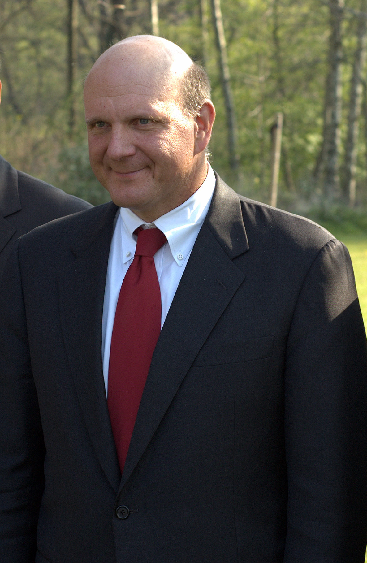 Steve Ballmer, CEO of Microsoft. Camera: Nikon D50 using Nikkor kit lens (18-55mm)